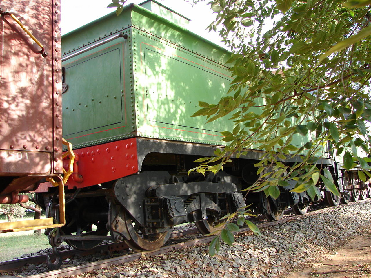 SAR Class 7 no. 975 with a Type ZA tender